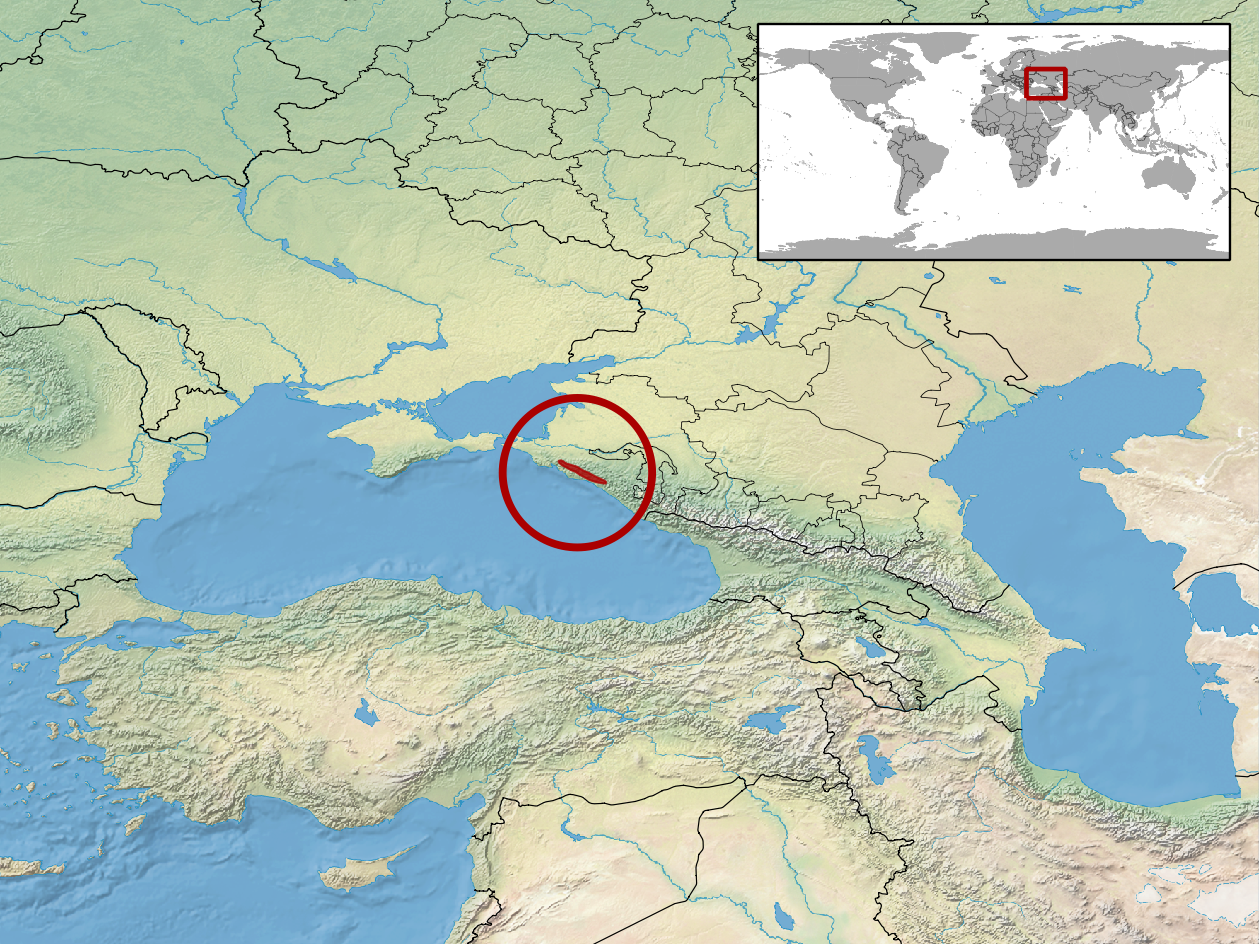 geographic distribution of Vipera orlovi (Native: Russian Federation)